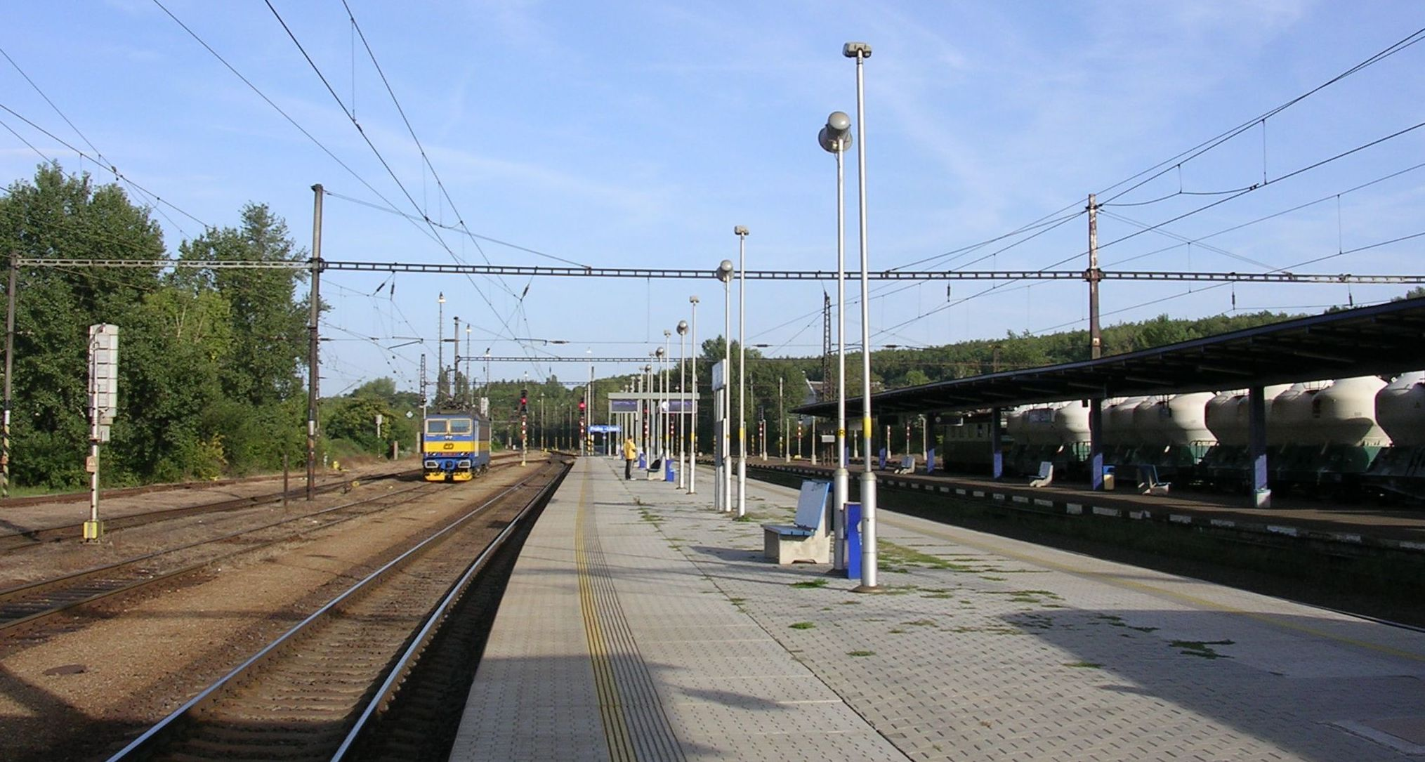 Vysočany, Prague, the Czech Republic. "Praha-Libeň" train station.